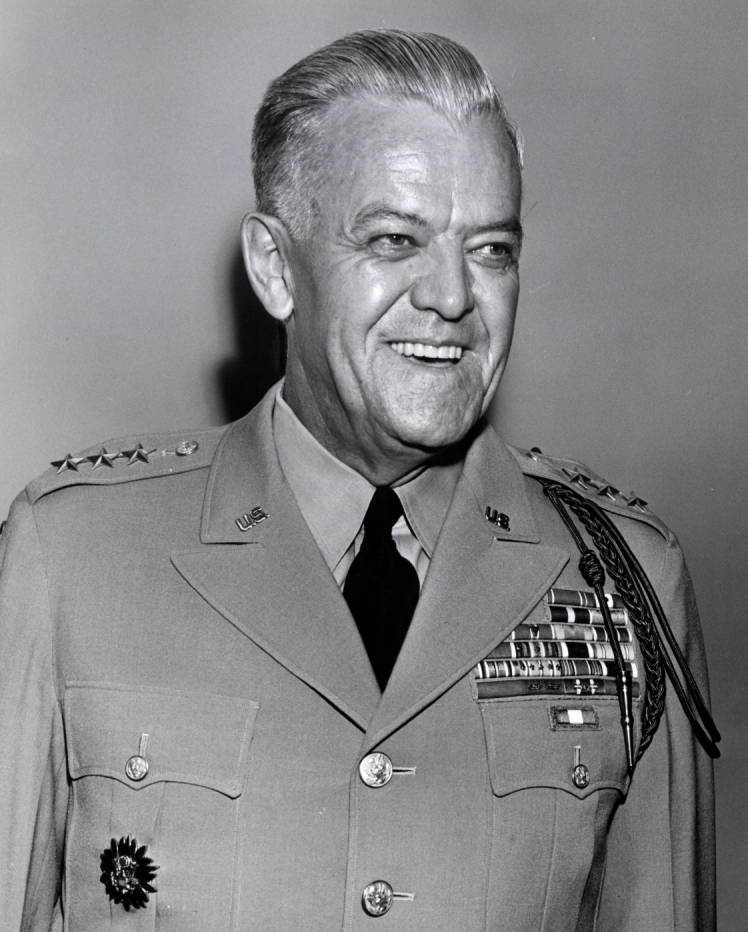 Major General Andrew Davis Bruce, U.S. Army (Ret.)